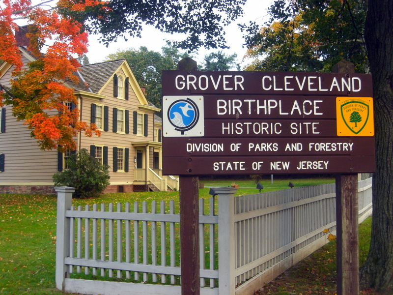 Caldwell Presbyterian Church Manse This photo was taken in Caldwell NJ.